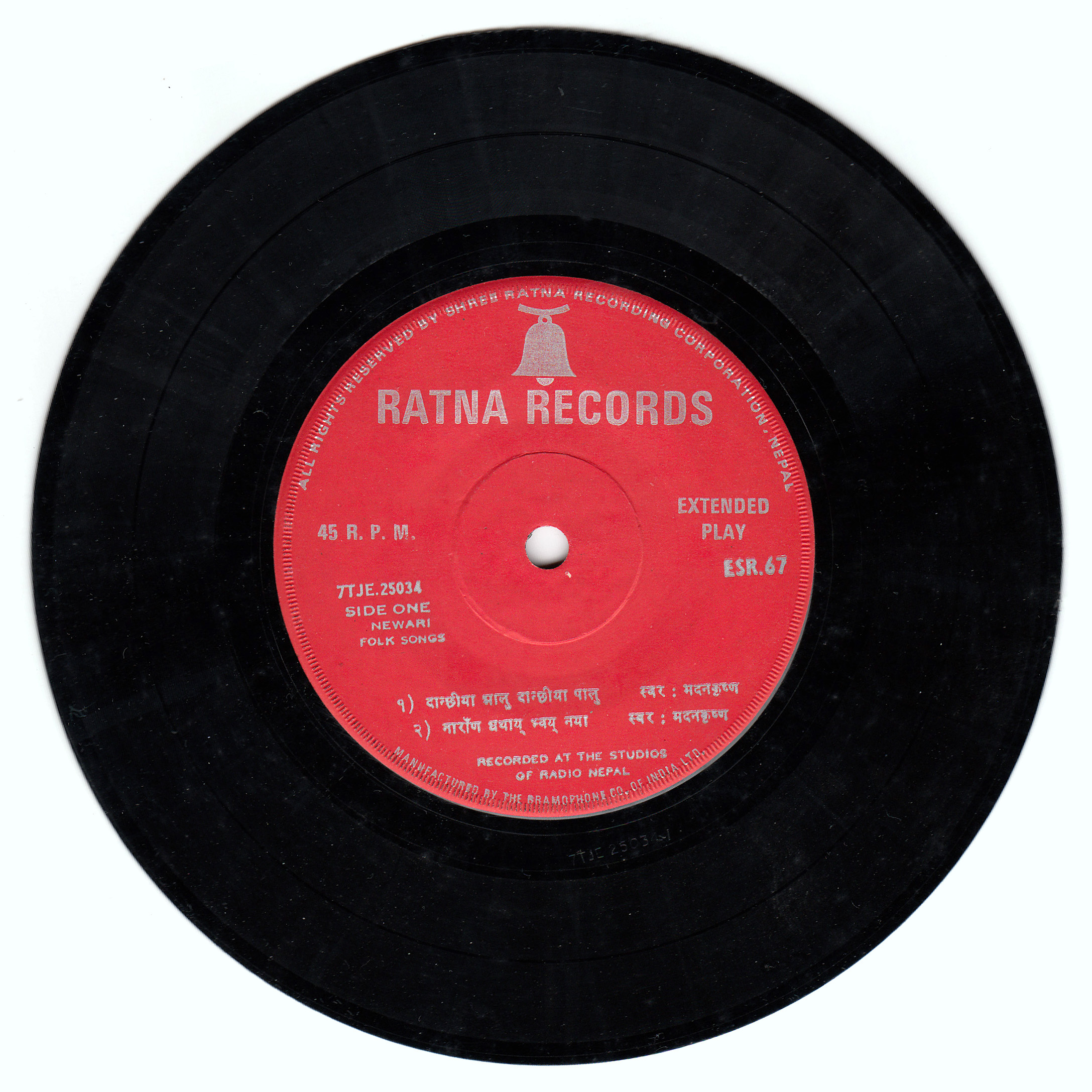 Gramophone record of Nepal Bhasa song Danchhi ya alu (A farthing worth of potatoes) by Madan Krishna.